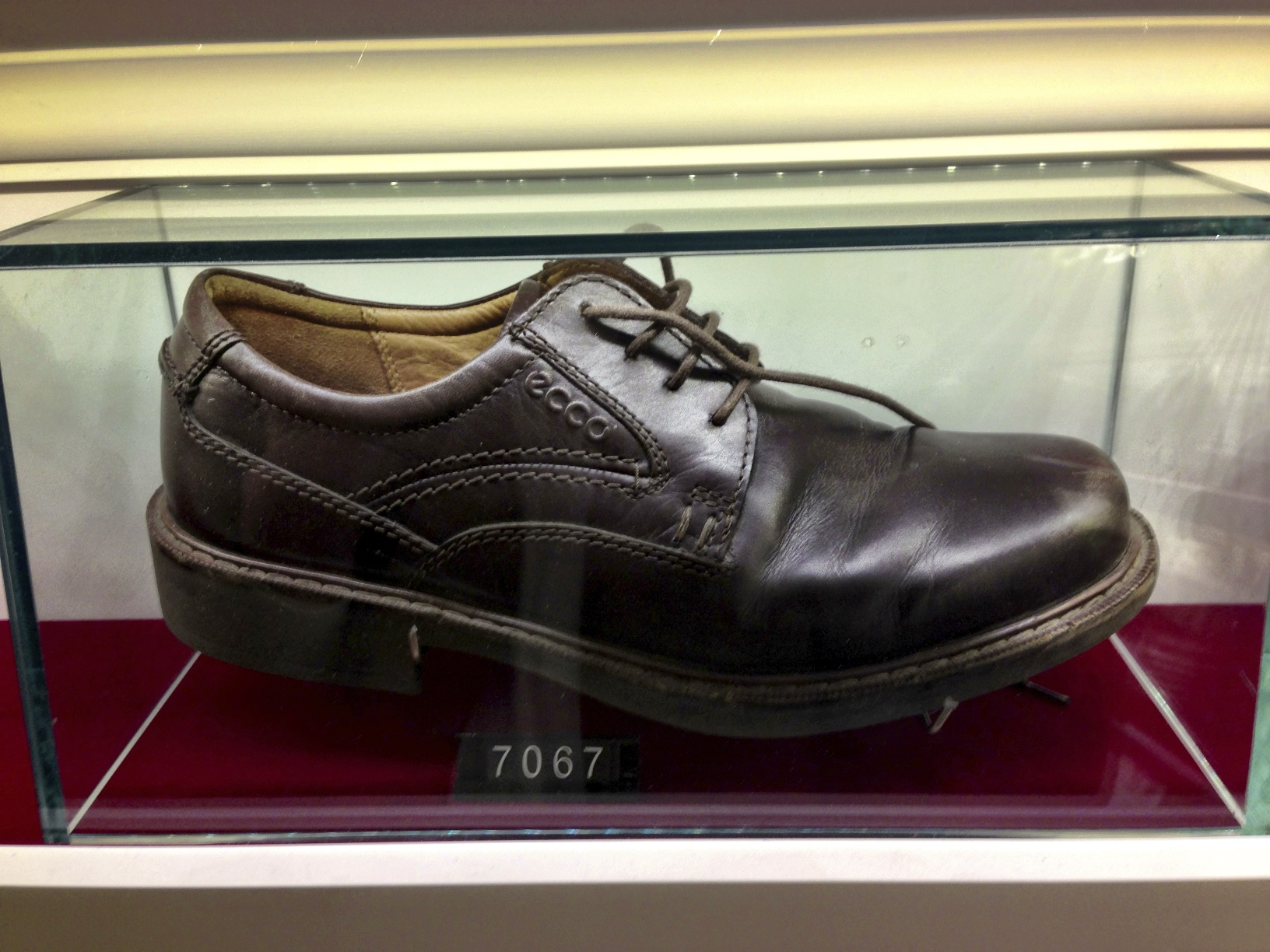 A fictional depiction of the shoe thrown at President Bush during a press conference in Iraq in 2008. (Security agents destroyed the shoes thrown at US President George W Bush by an Iraqi journalist during checks to ensure they did not contain explosives). Photograph taken at a museum called Mmuseum in New York City.